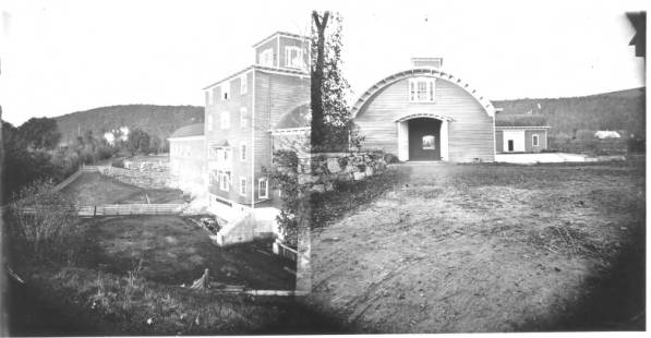 Barn on the estate 'Brookside,' Great Barrington, Massachusetts, belonging to banker David Leavitt (1791–1879). Collection of Winterthur Museum & Country Estate, Winterthur Digital Collections. Gelatin photograph.